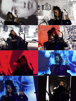 Matana Roberts, Aarhus Denmark (2015)